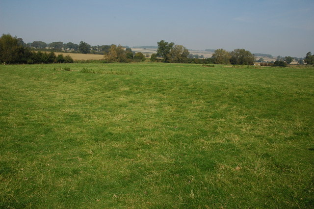 Earthworks at Ascott d'Oyley Earthworks on the site of Acsott d'Oyley Castle.